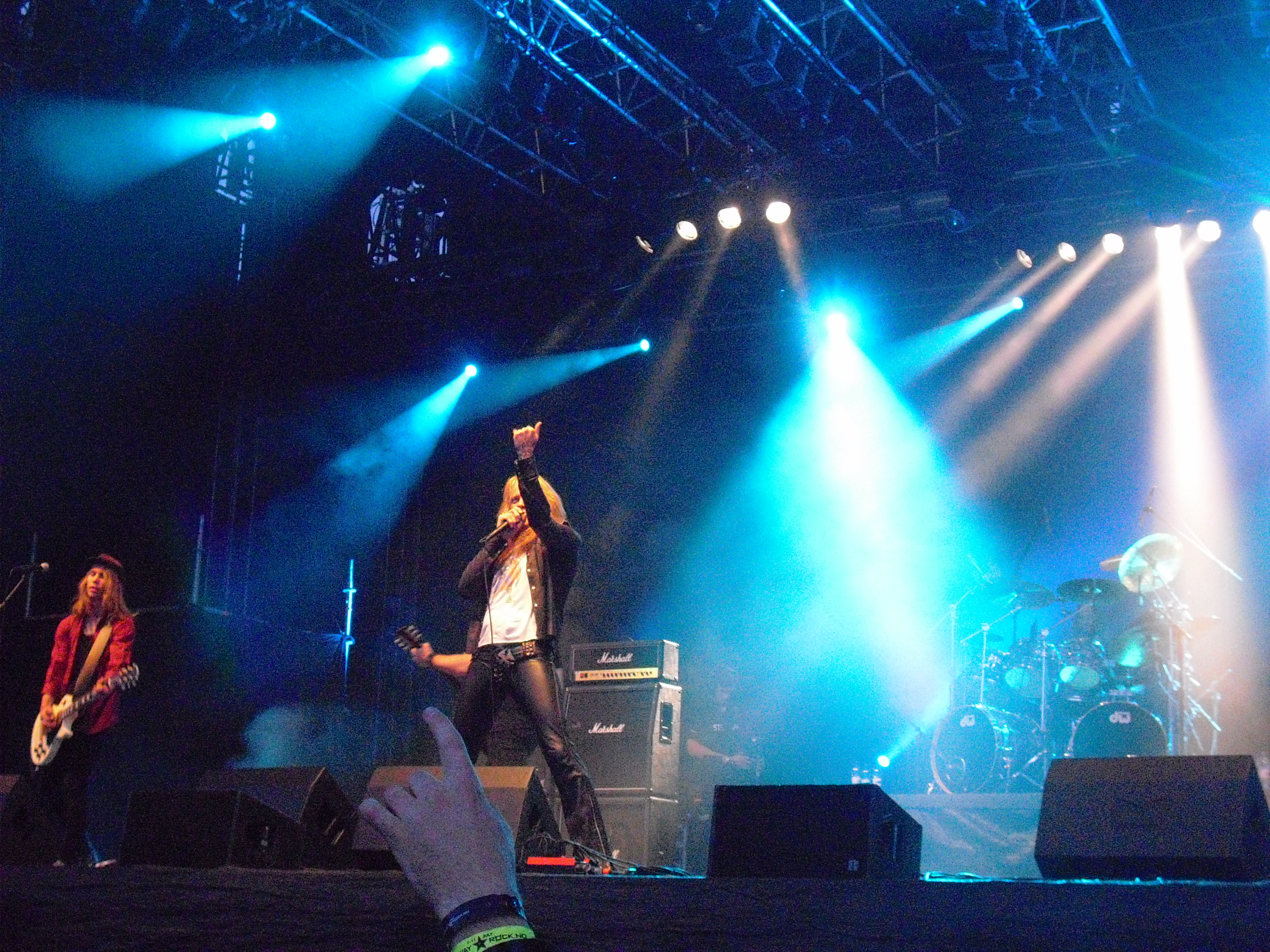 Sebastian Bach performing live at Norway Rock Festival 2010